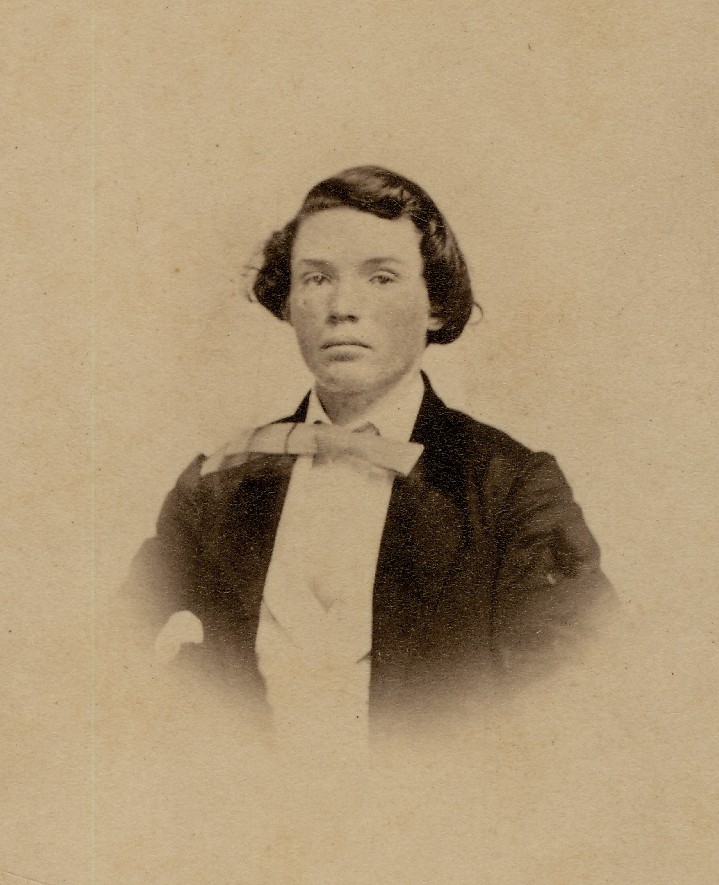 Bust portrait of a man in civilian clothing. "Carolus J. Peddicord, killed near Gallitan, Tenn., by order of federal Gen. Paine, aged twenty three years." (written on reverse side). United Daughters of the Confederacy, Missouri Division stamp on reverse side. Rank and unit unknown. Note: May be C. A. L. Peddicord of the 3rd Virginia Cavalry.Title: Carolus Peddicord, 3rd Virginia Cavalry [?] (Confederate).